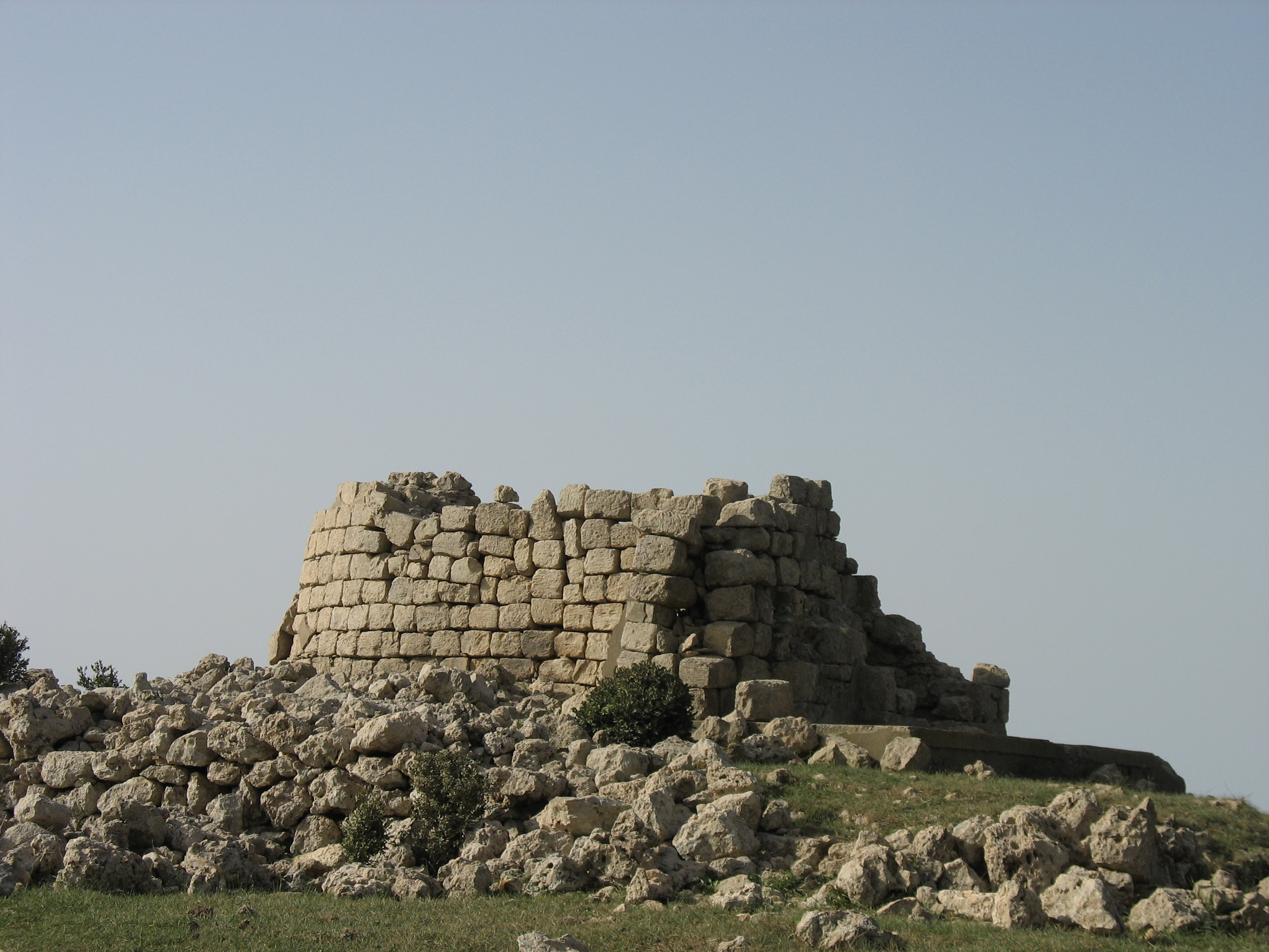 The picture shows a Monument near the top of the Musa Dagh mountain depicting a ship that saved the lifes of 4000 Armenian People in 1915 as described in Franz Werfel's book "The Forty Days of Musa Dagh". The picture was taken by Andre Thess on 12 September 2015, the 100th anniversary of the rescue of the Armenians.